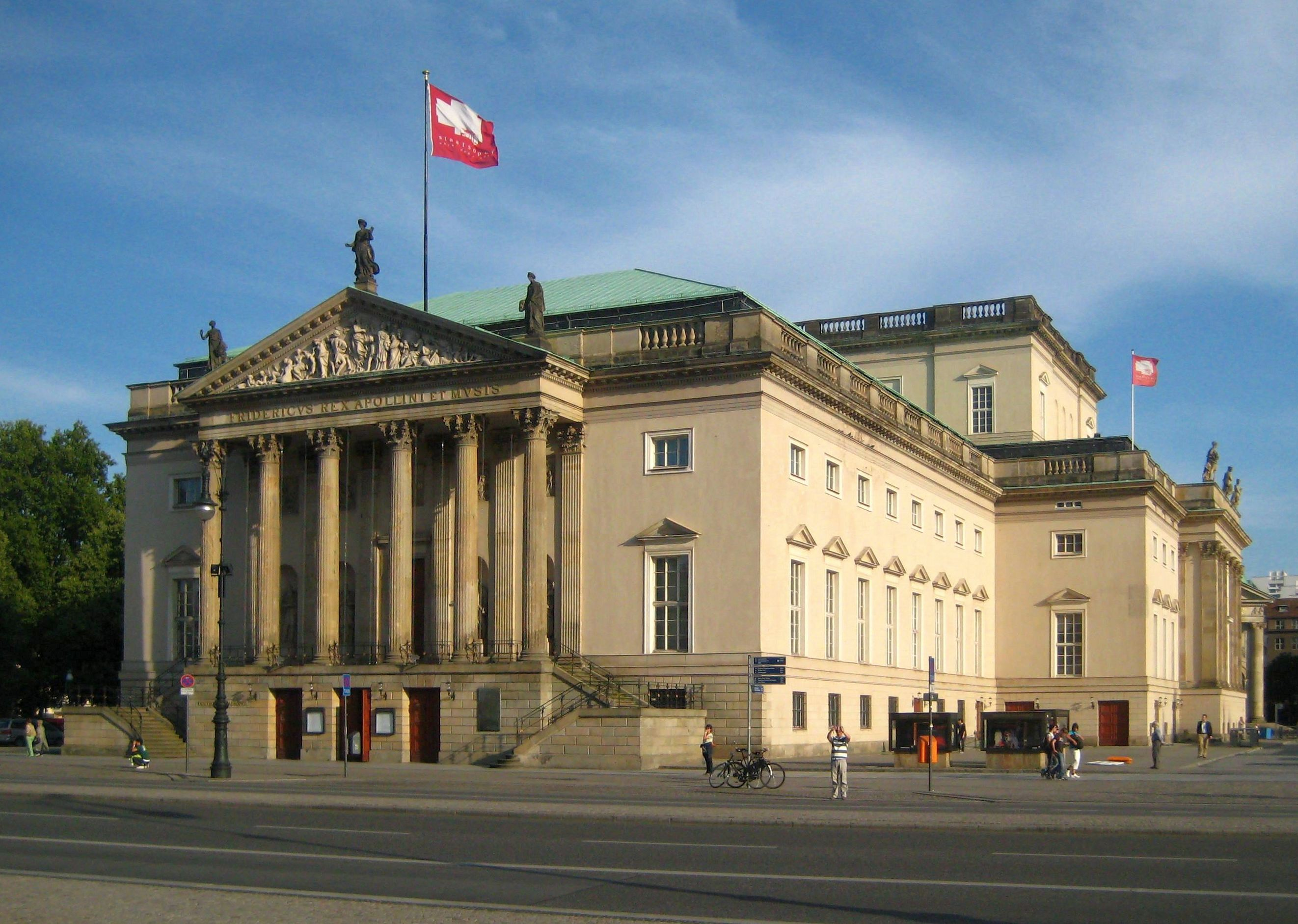 The State Opera House Unter den Linden in Berlin-Mitte.